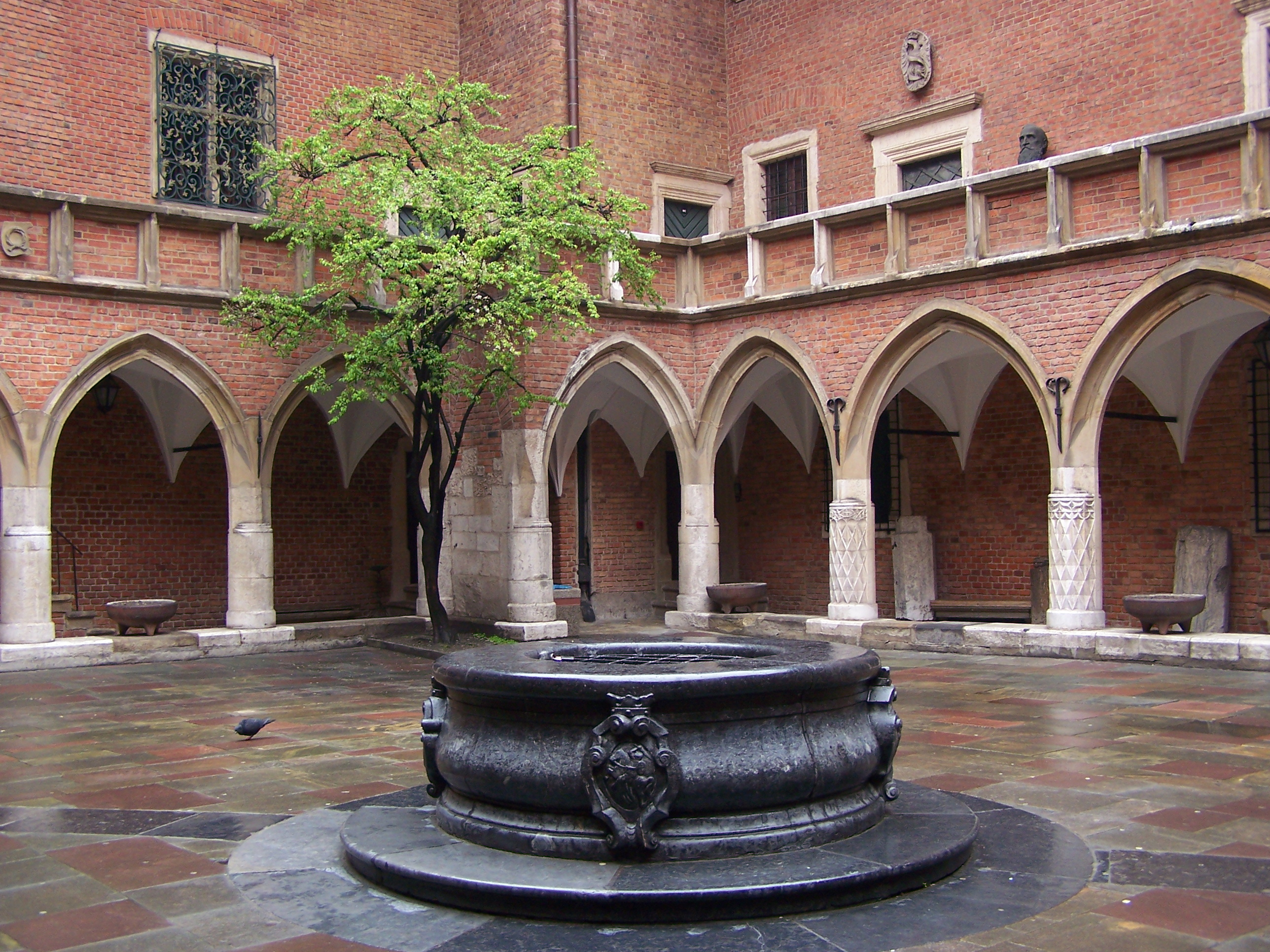 Collegium Maius, Krakow.